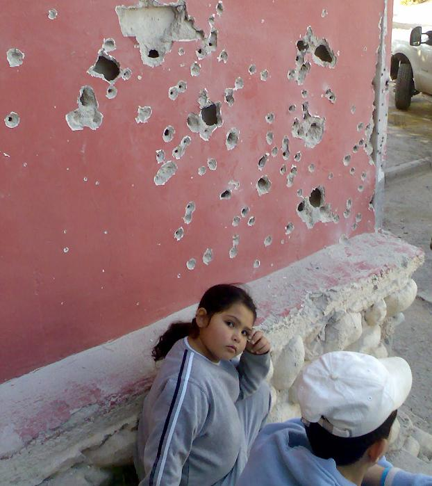 Holes in resident walls, after a missile attack 20 meters from the place, in an open area, during the 2008-2009 Israel-Gaza conflict. The picture was taken near my home in Beersheba.